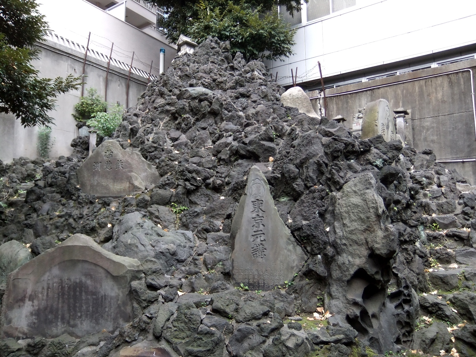 Fuji Sengen Shrine "Fuji-zuka" at Teppōzu Inari Shrine in Chuo-ku, Tokyo